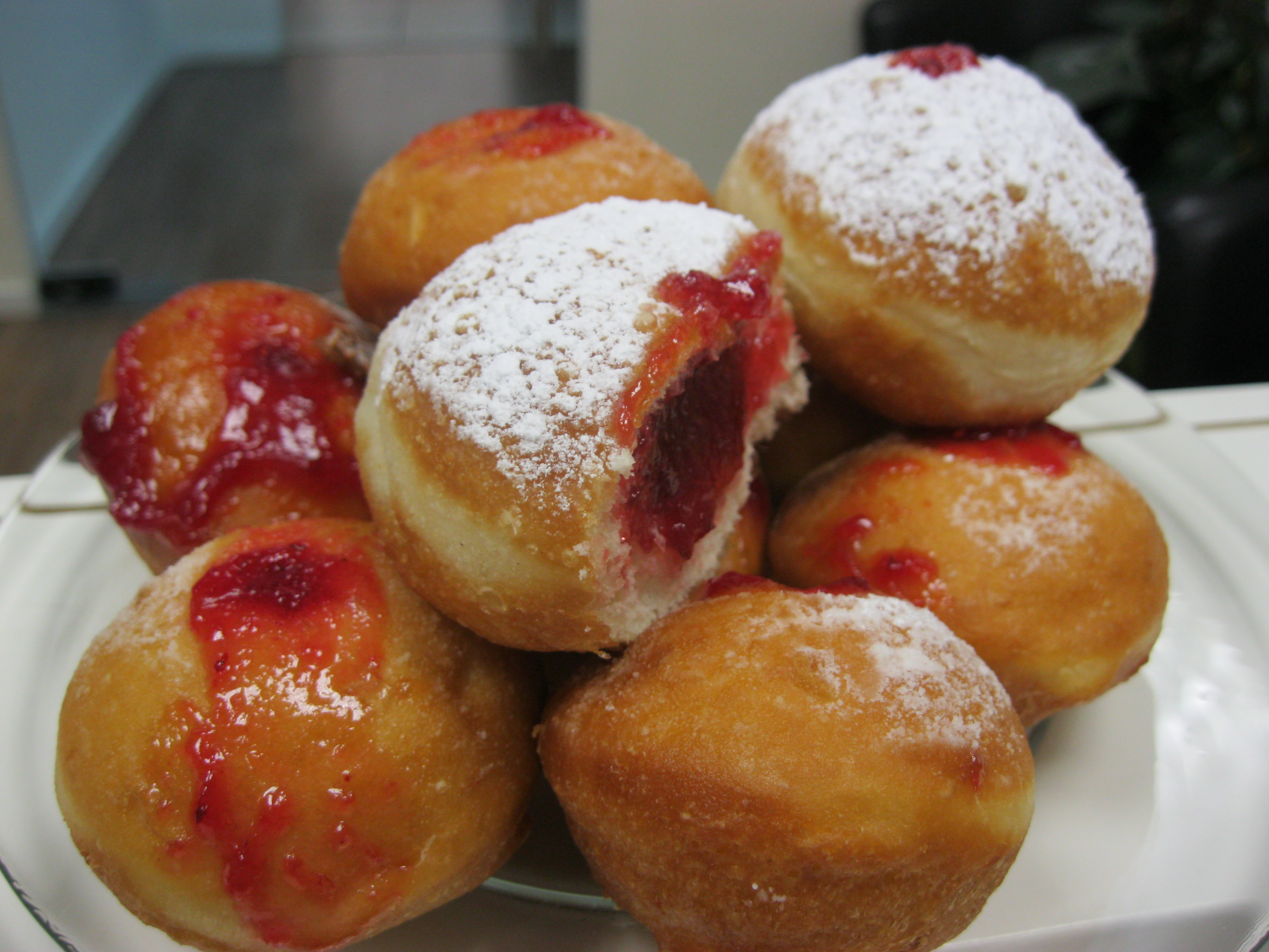 Classic Hanukkah sufganiyot filled with strawberry jelly and powdered sugar above